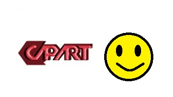 picture for cia(continuous internal asessment).